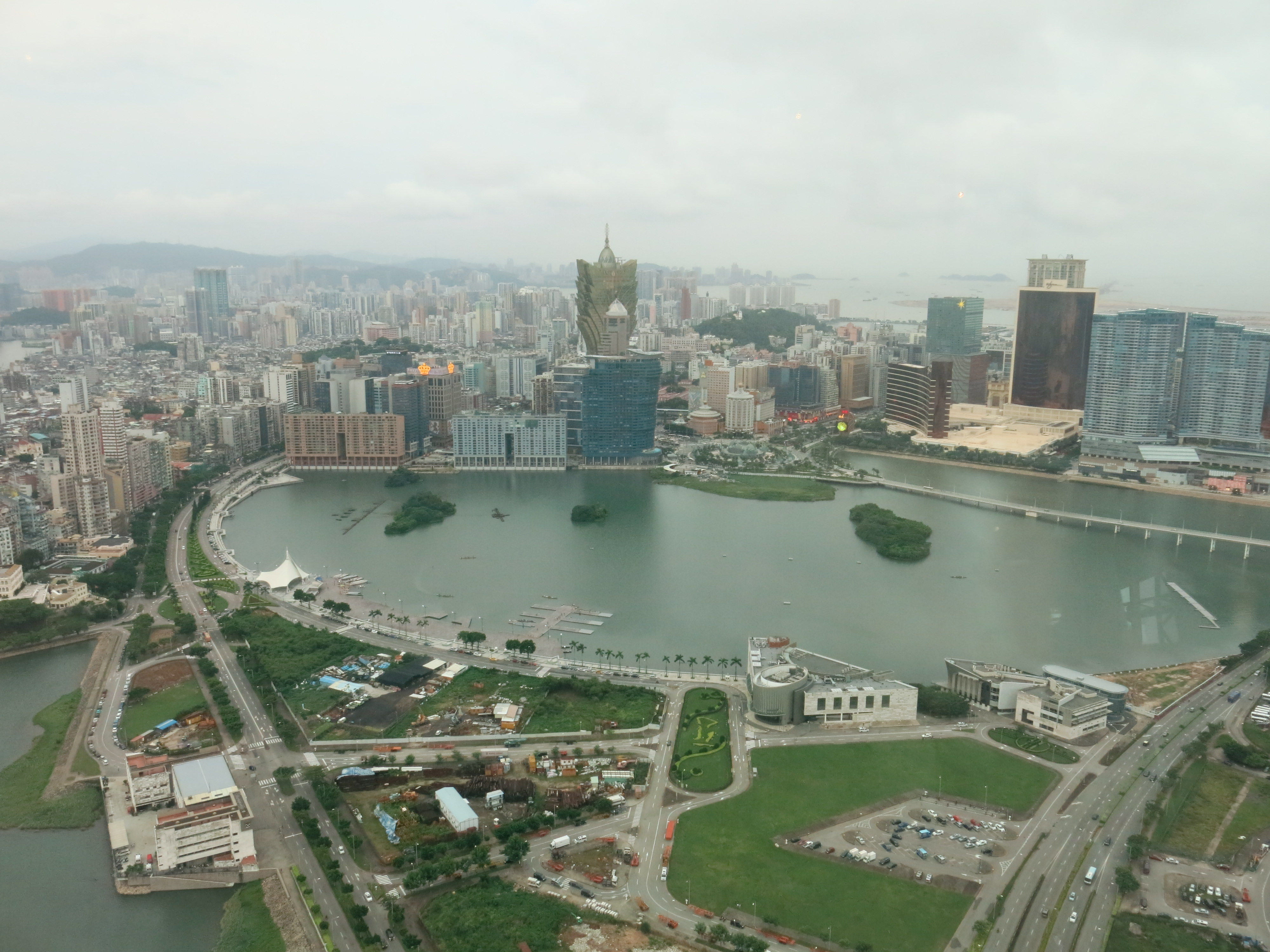 A view on the old town from the Macau Tower